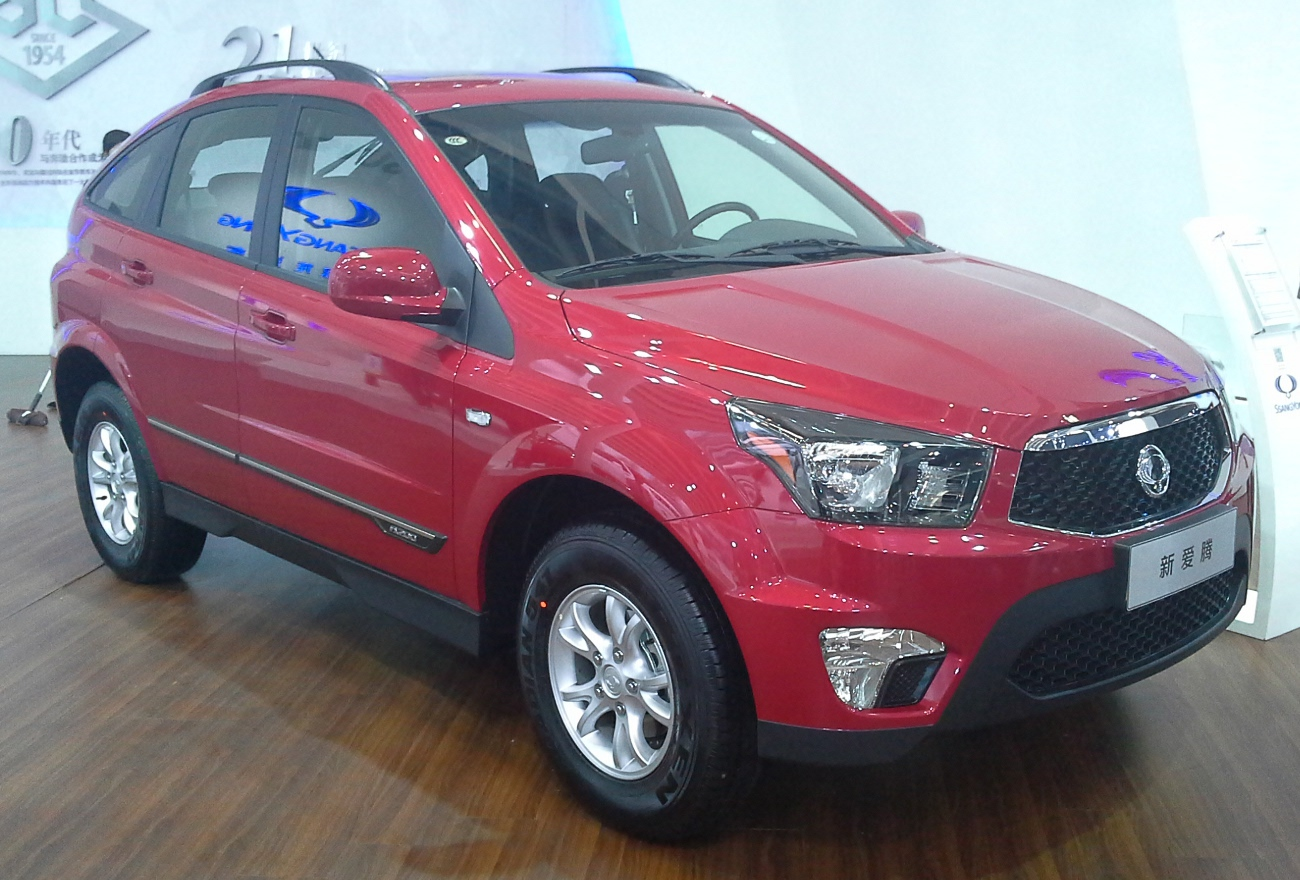 SsangYong Actyon facelift photographed at the Auto China 2014, Beijing, China.